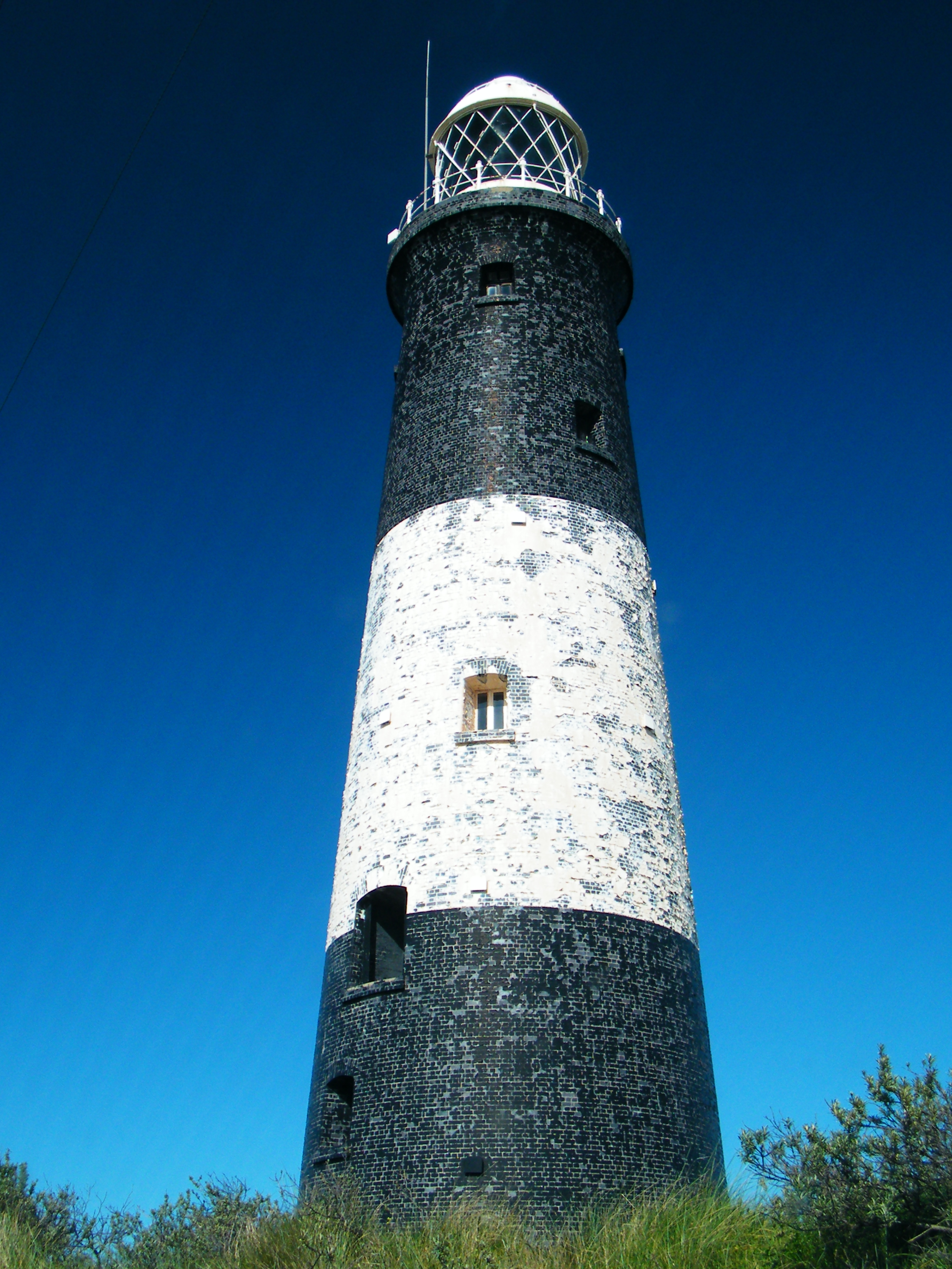 Spurn Head Lighthouse, Spurn Point, East Riding of Yorkshire, England.On a beautiful day.